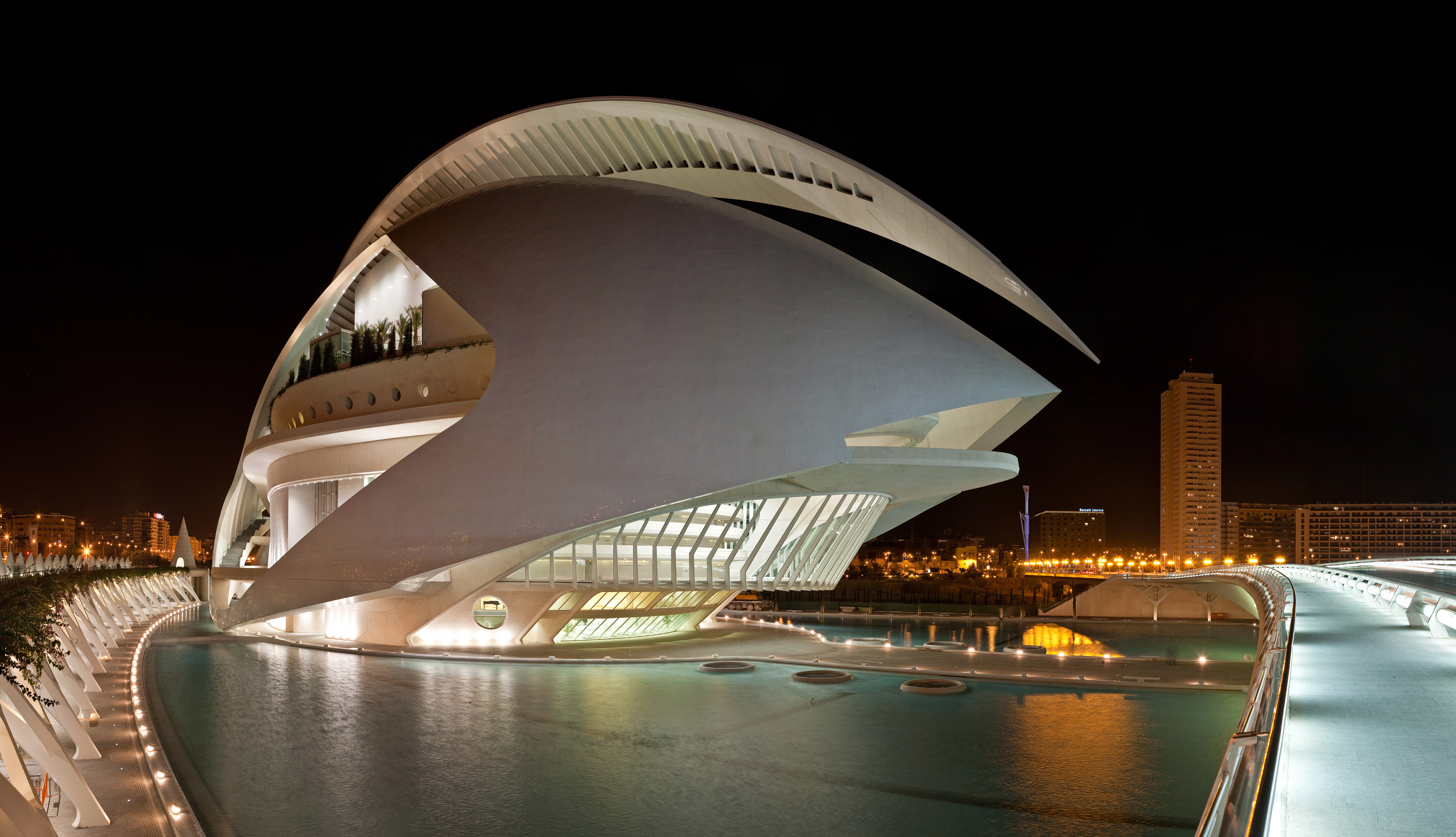 El Palau de les Arts Reina Sofía in Valencia, Spain. This is a 3×5 segment panorama taken by myself with a Canon 5D and 24-105mm f/4L IS lens.